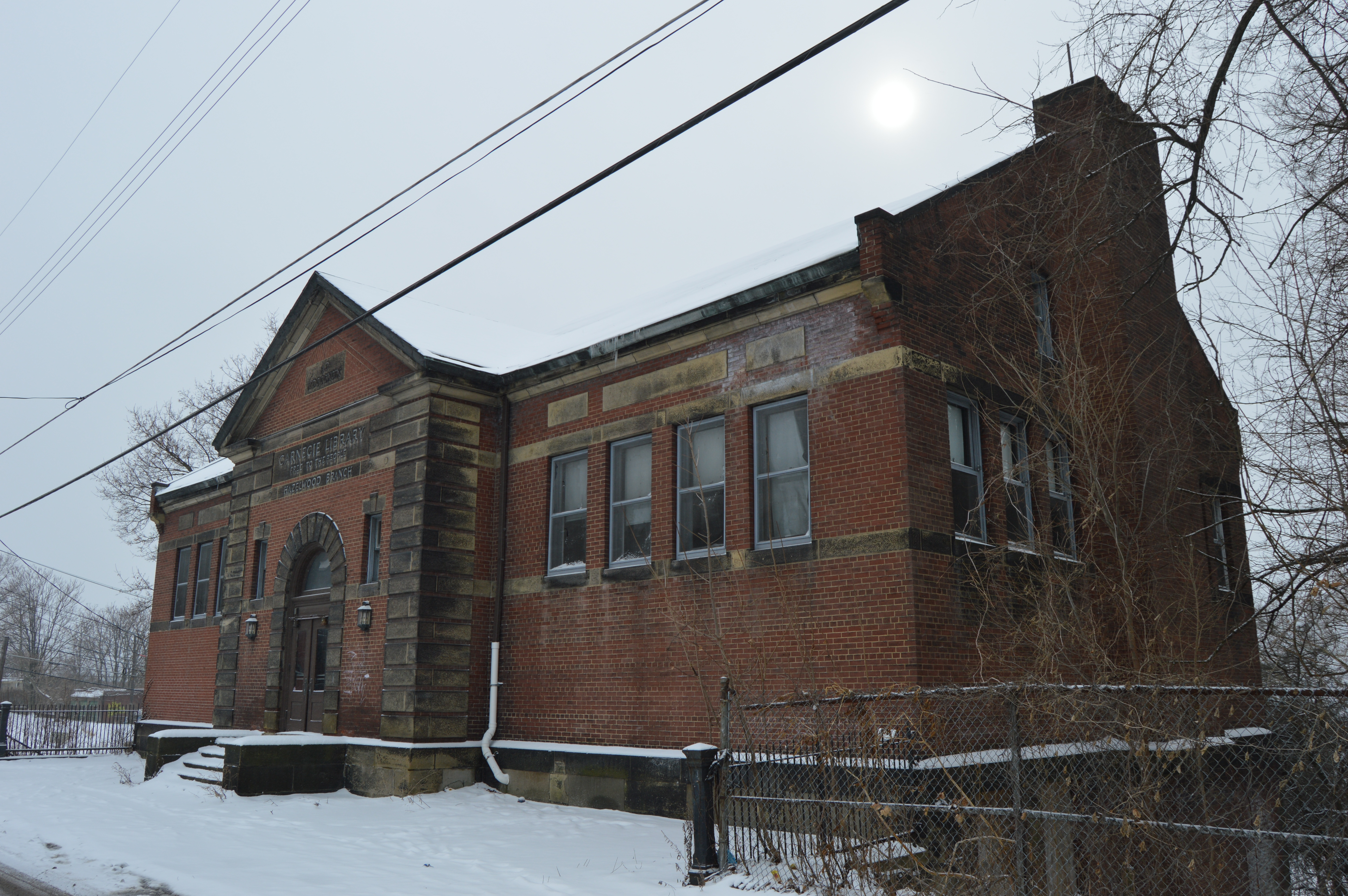 Front and northern side of the former Hazelwood Branch of the Carnegie Library of Pittsburgh, located at 4748 Monongahela Street in Pittsburgh, Pennsylvania, United States. It was built in 1899.